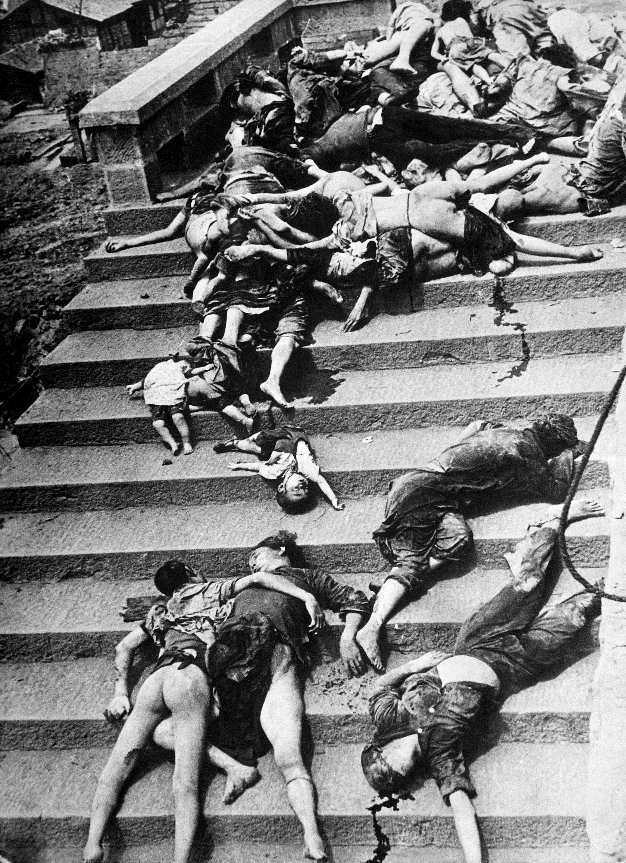 Casualties of a Japanese air raid, in which 4,000 people were trampled or suffocated to death trying to return to shelters. Chungking, China, June 5, 1941., 1942 - 1945